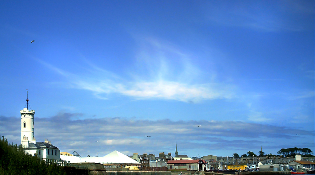 Arbroath from Beach